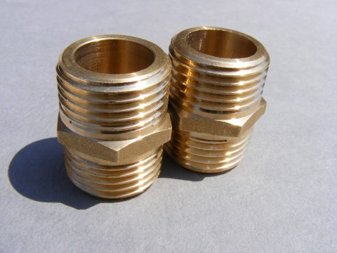 Free and Public Domain Photos – Hex Nipple More photos and details about possible copyright or licensing restrictions here: Full Size Up to 3072 x 2304 pixels Information Regarding Copyright